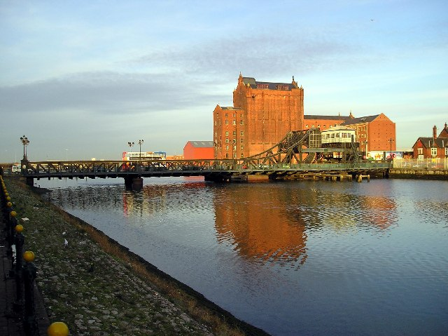 The Corporation Bridge in Grimsby, North East Lincolnshire is a lifting bridge in the town's former fish docks.